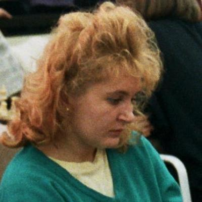 Malgorzata Wiese (Poland), Chess Olympiad 1988 in Thessaloniki, Photographer Gerhard Hund.